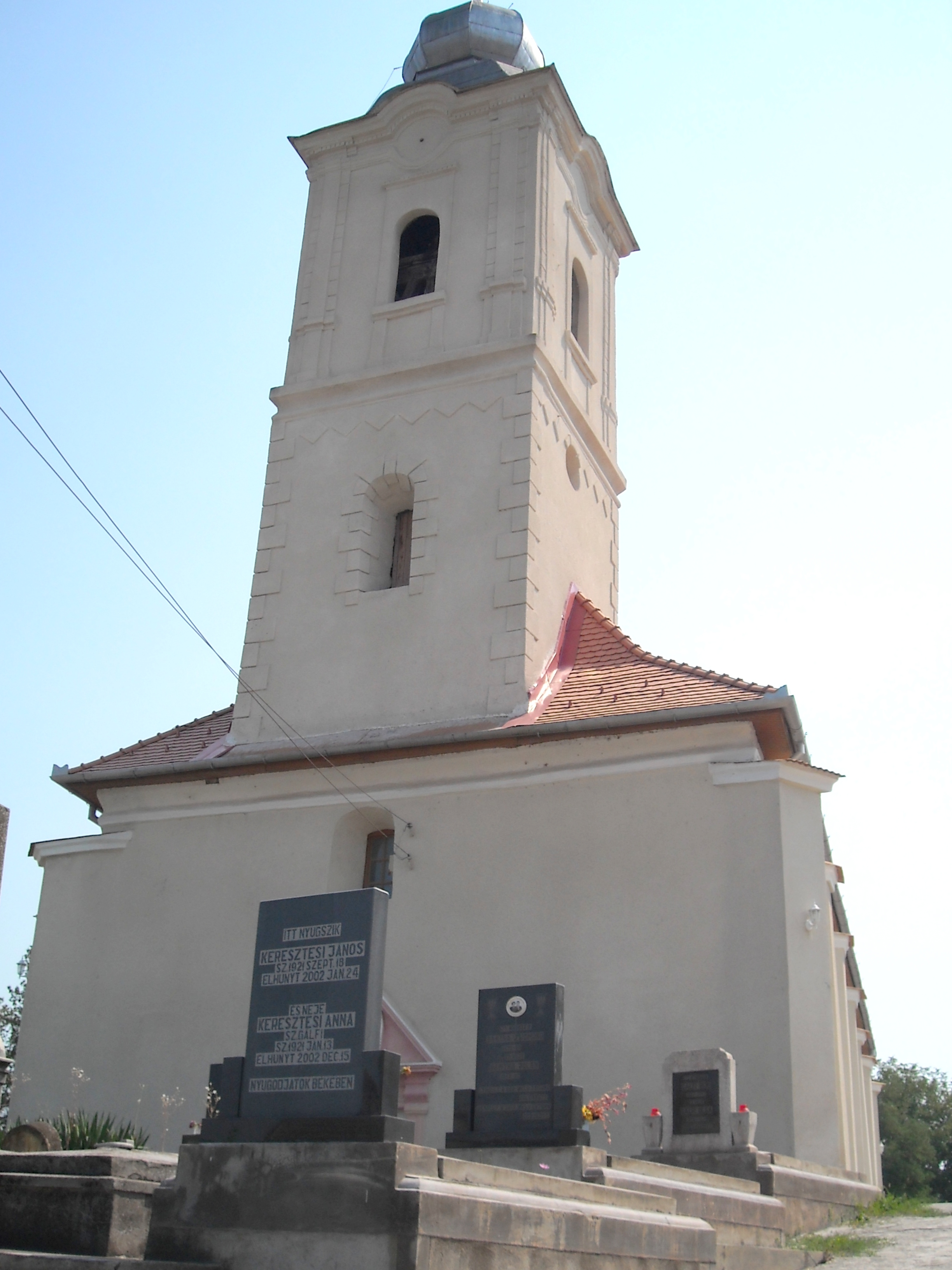 reformed church in Hunedoara (Vajdahunyad) (Romania)